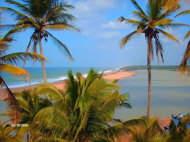 Tpmbeach